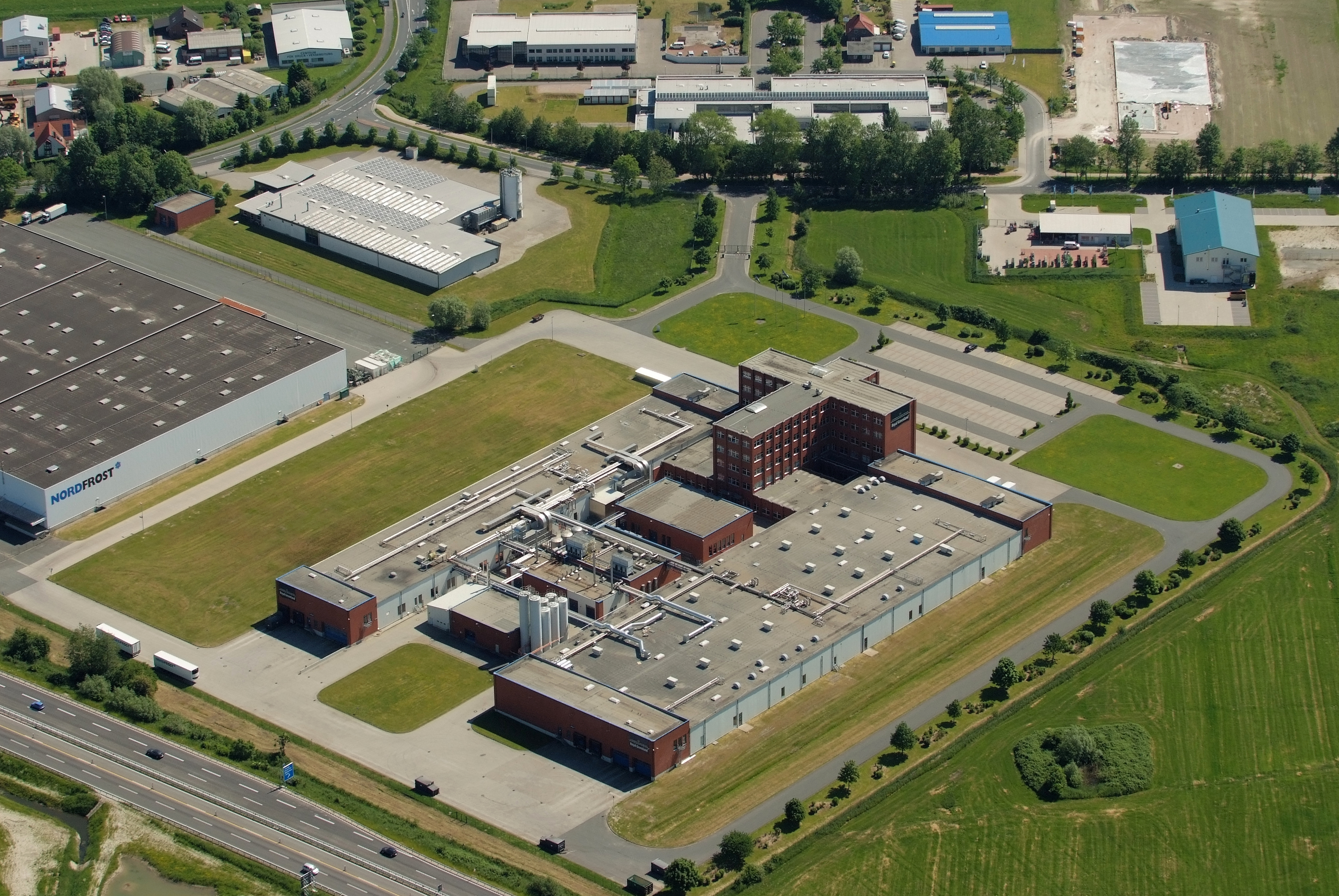 Royal Greenland Seafood GmbH factory in Wilhelmshaven, Germany, seen from West, May 2012. Since December 2013, this factory operates as Greenland Seafood Wilhelmshaven GmbH.